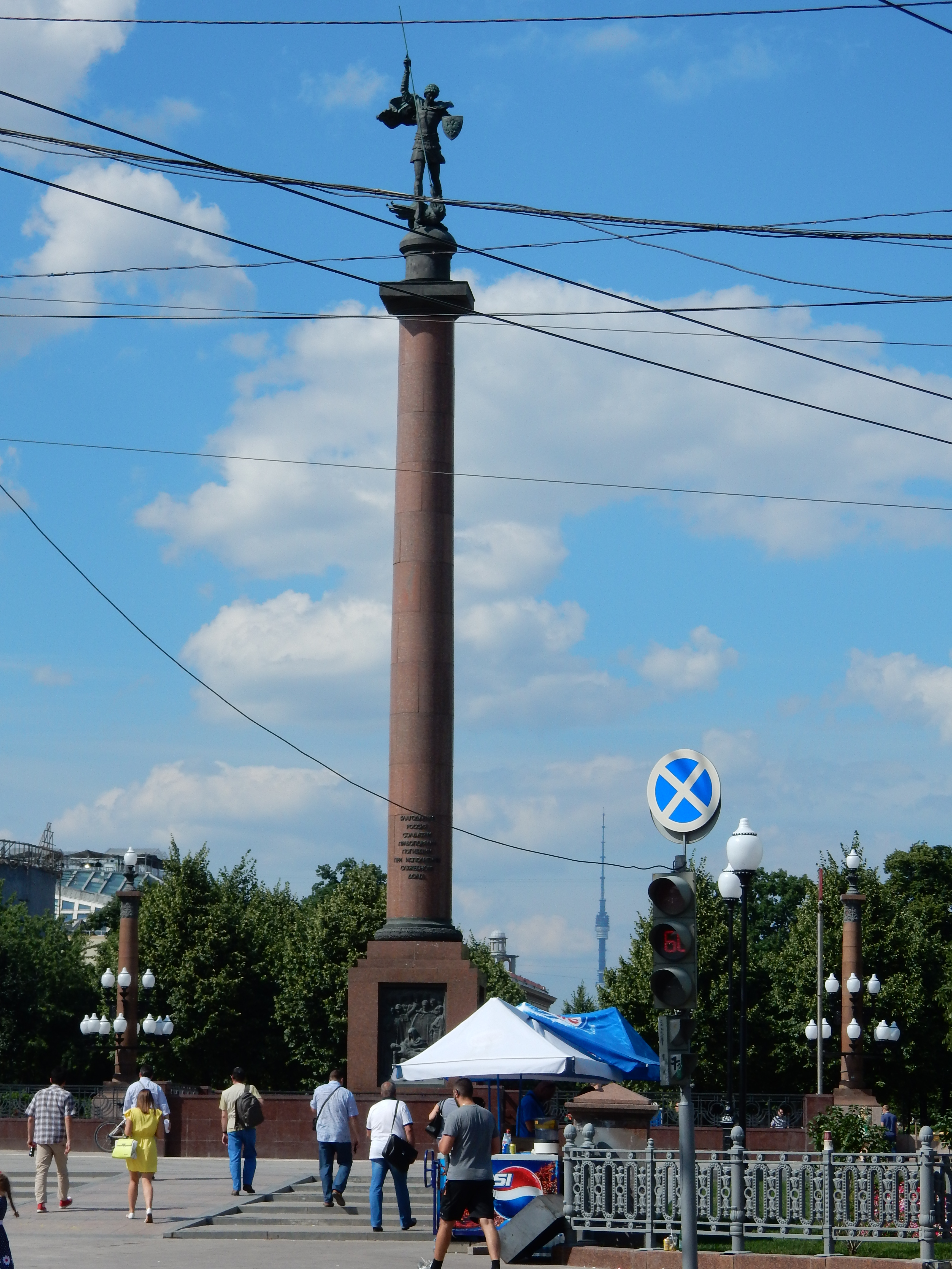 Moscow, Trubnaya Square. July 2014.